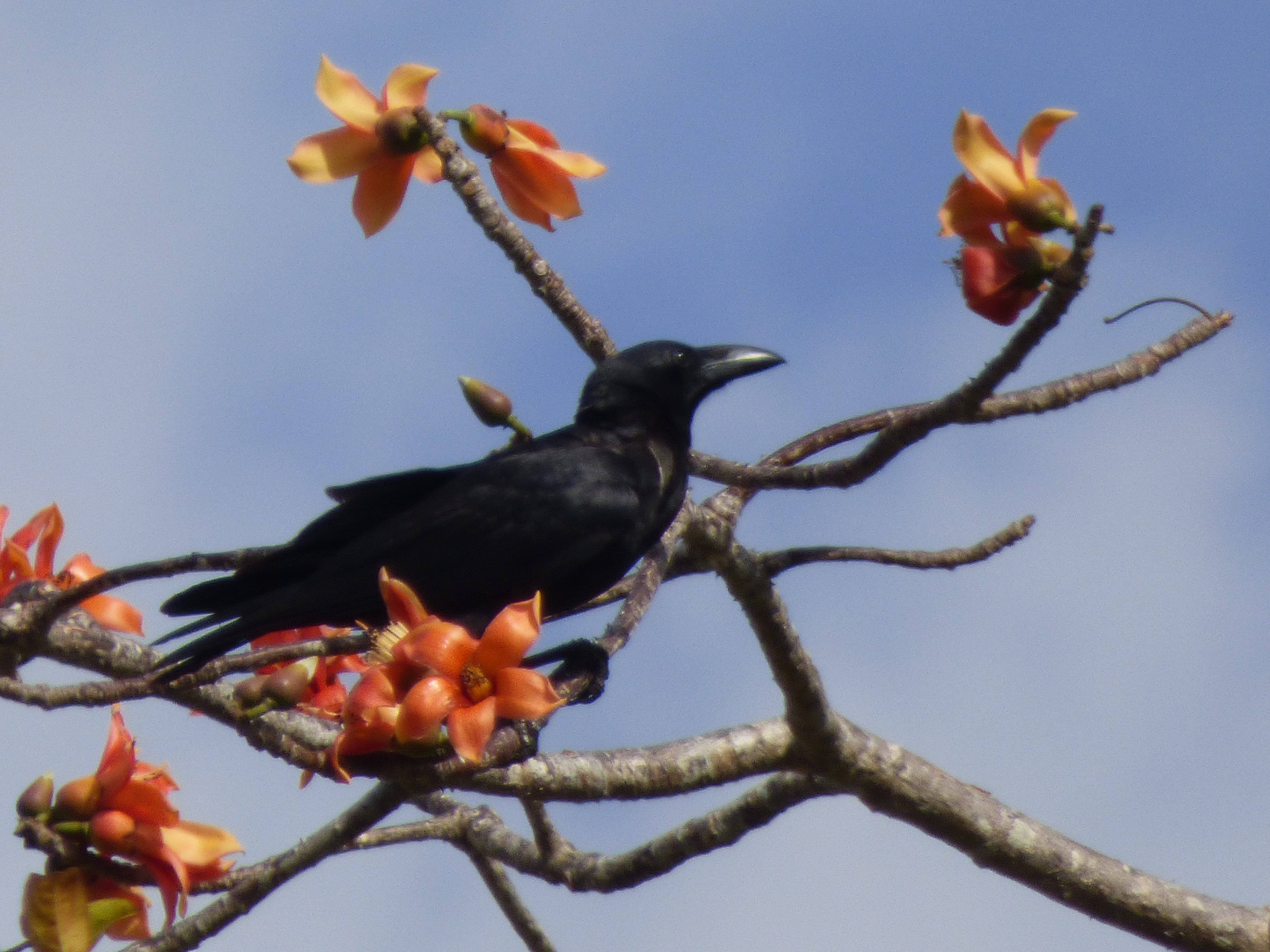 Slender-billed crow (Corvus enca) feeding on red cotton tree (Bombax ceiba), northern part of Buton Island, Southeast Sulawesi, Indonesia